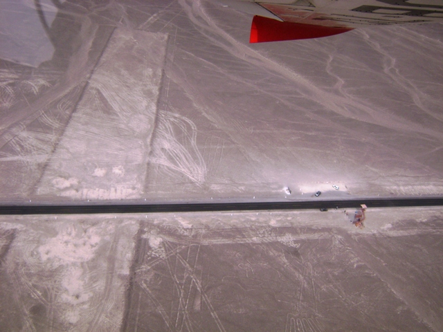 The Nazca Lines divided by the Pan American Highway.